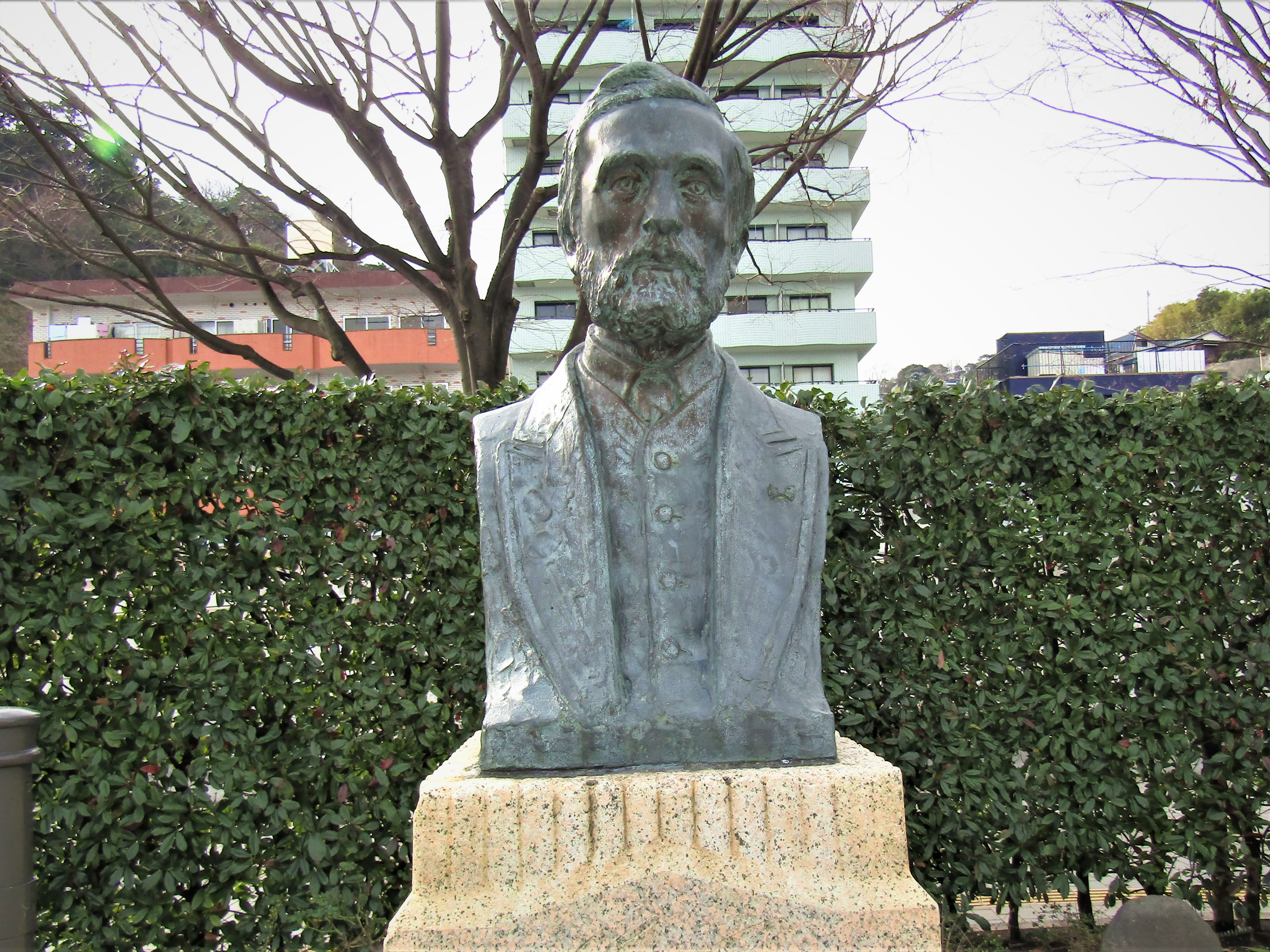 François Léonce Verny' [1] (born December 2, 1937, in Abuenas, Ardèche) is a French naval engineer, came to Japan in the final days of the Tokugawa Shogunate and in 1865 administered the construction of Yokosuka Naval Arsenal. He managed the arsenal from 1866 until the new Meiji government takes over the project. It was his strong will that in many ways led to the eventual completion of Yokosuka Naval Port. Shortly after his return from Japan, Léonce Verny took over the management of the "Roche-la -Molière & Firminy Mines" in January 1877 and was to remain there until September 1895 before becoming a director. He died on May 2, 1908, in Pont-d'Aubenas. In appreciation for his great contribution to the modernization of Japan, the Verny Commemorative Museum [2] and Verny Park [3] are named after him by the City of Yokosuka, and commemorates his memory each year in November.